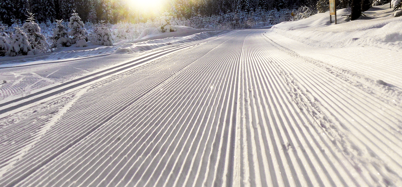 Skate skiing track, groomed smooth lines. On the left is track-set for classic skiing.